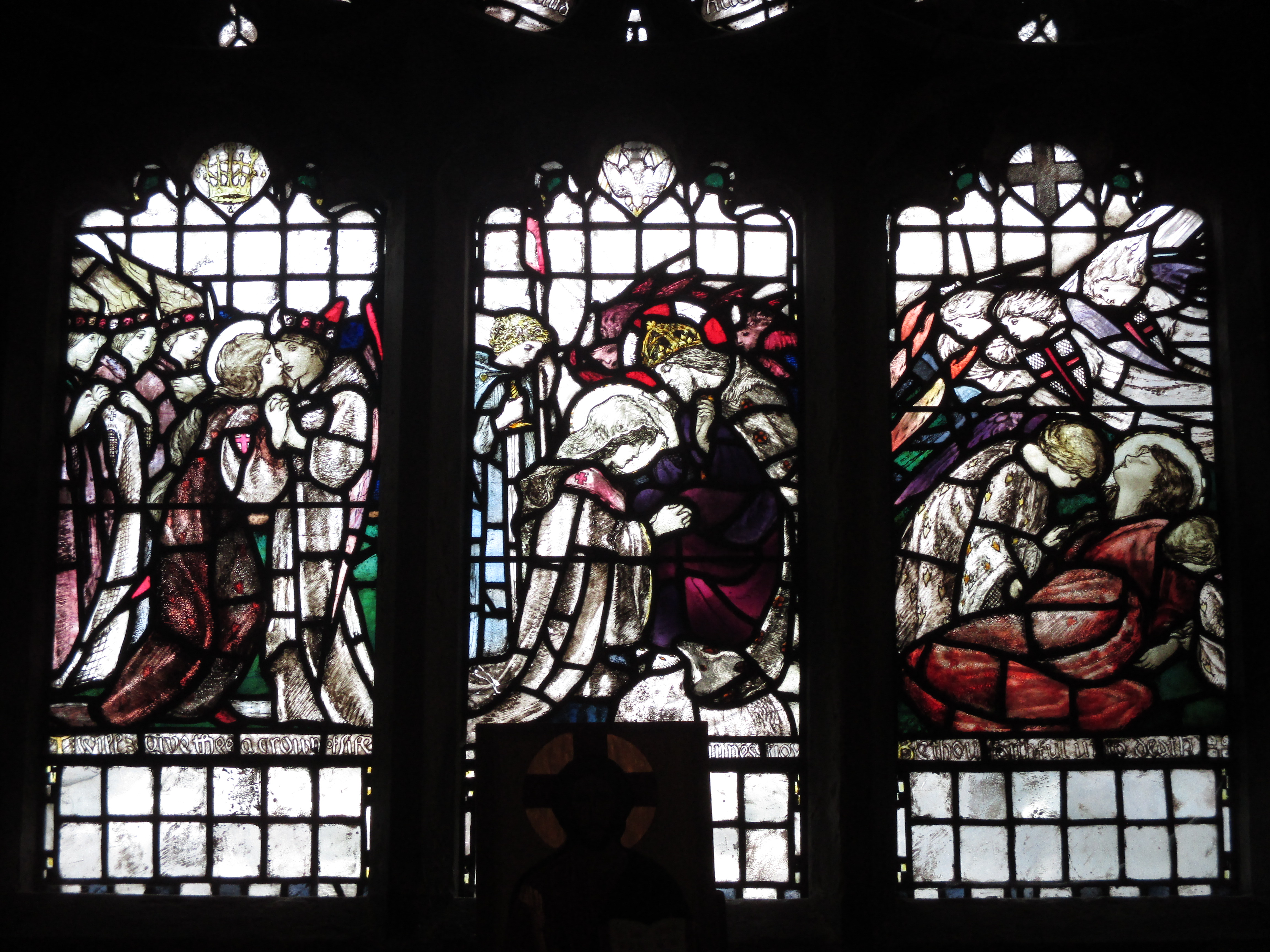 Detail of the east window of the north aisle of St Michael and All Angels Church, Southwick, West Sussex. It was made by Louis Davis.